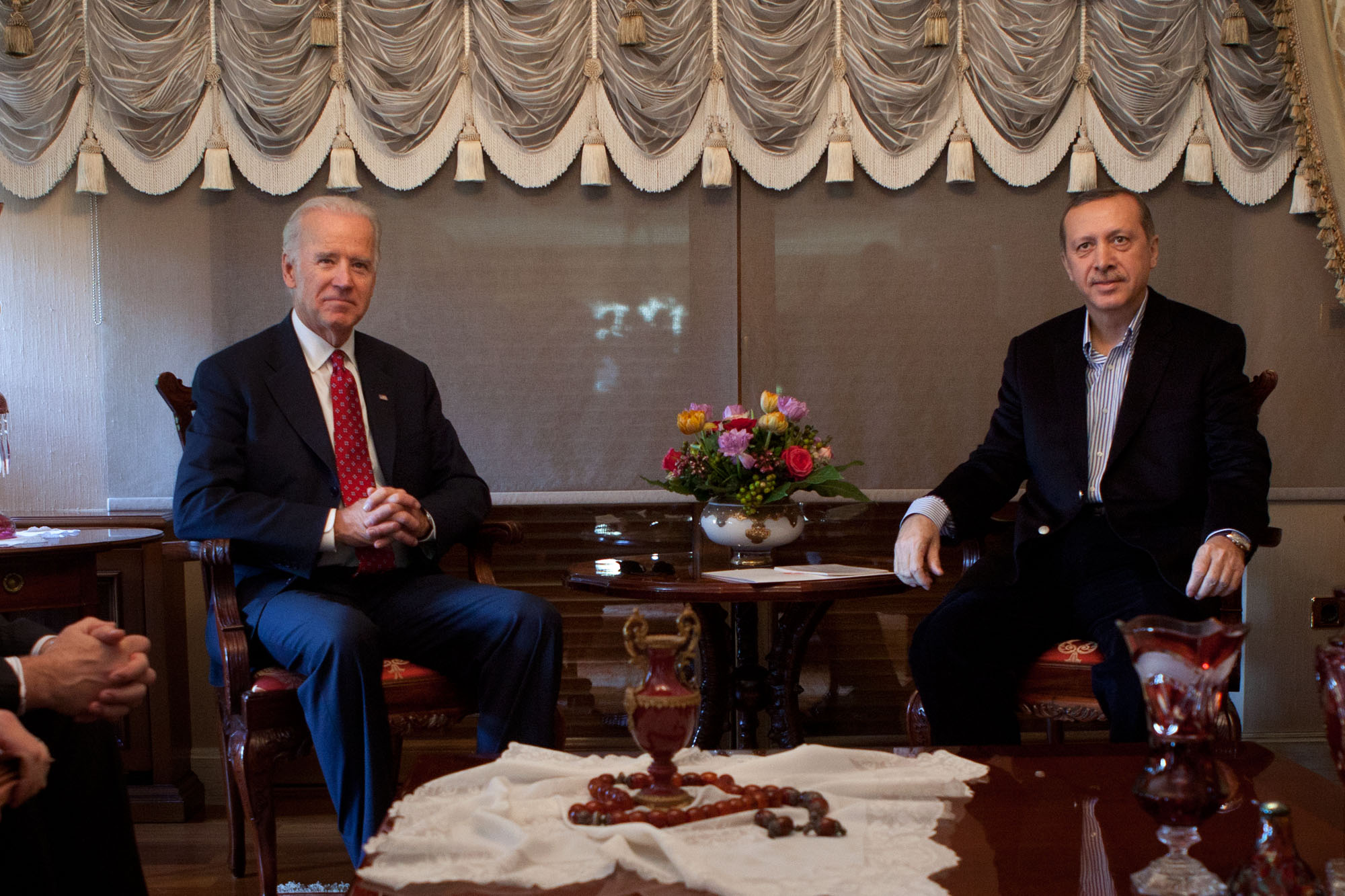 U.S. Vice President Joe Biden meets with Turkish Prime Minister Recep Tayyip Erdoğan at his home in Istanbul, Turkey.